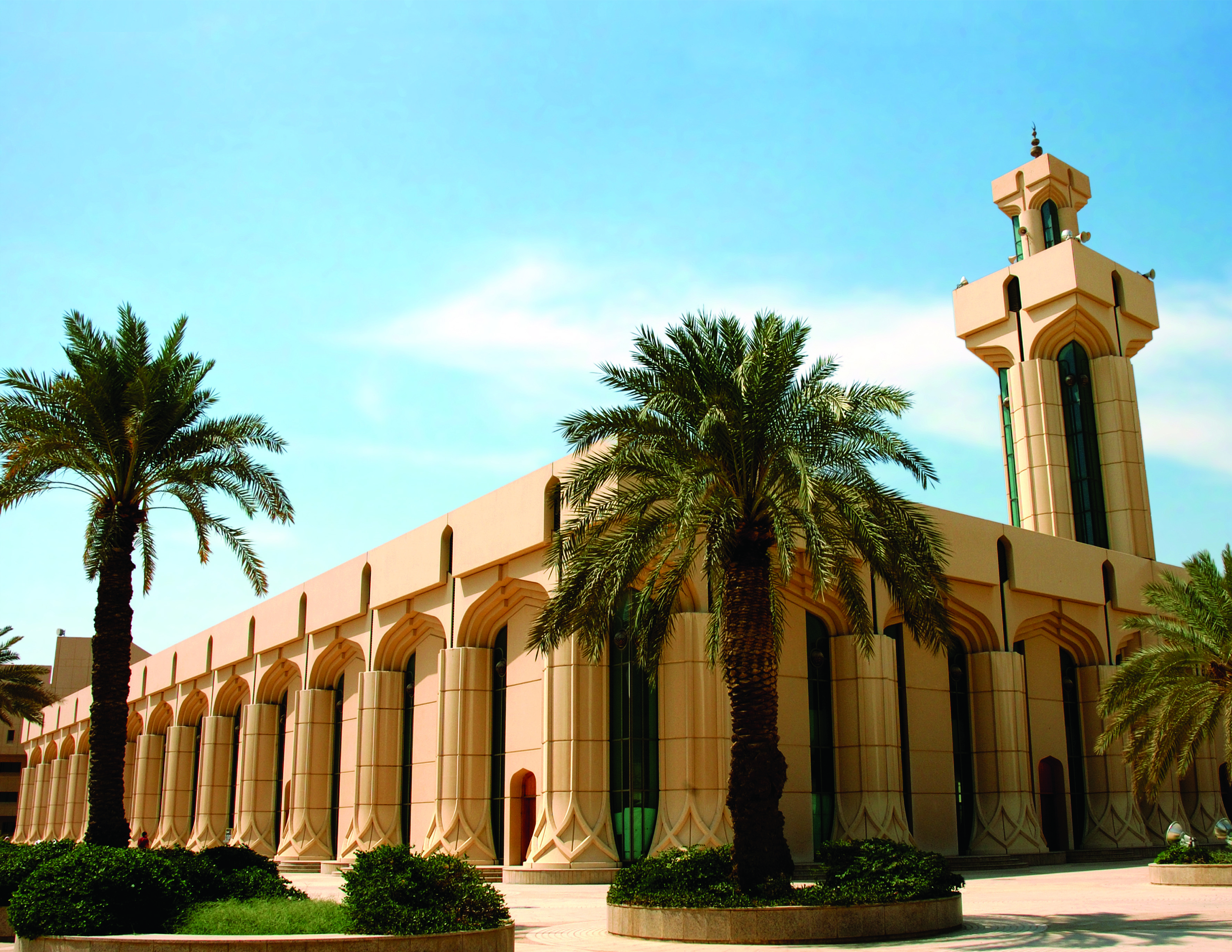 The Palm Mosque at the King Saud University in Riyadh by the architect Dr. Basil Al Bayati